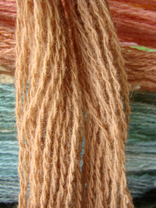 Skein of wool dyed with St John's Wort (hypericum). Medieval Festival of Sedan, May 20, 2007. (rotated)